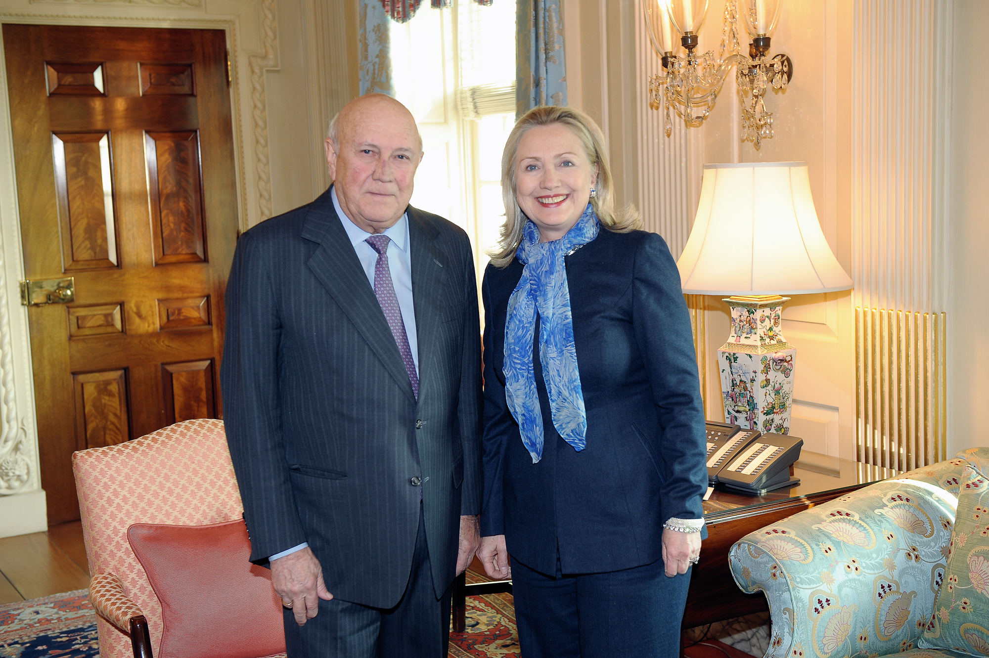 U.S. Secretary of State Hillary Rodham Clinton meets with F.W. de Klerk, former President of the Republic of South Africa, at the U.S. Department of State in Washington, D.C., on March 6, 2012. [State Department photo/ Public Domain]